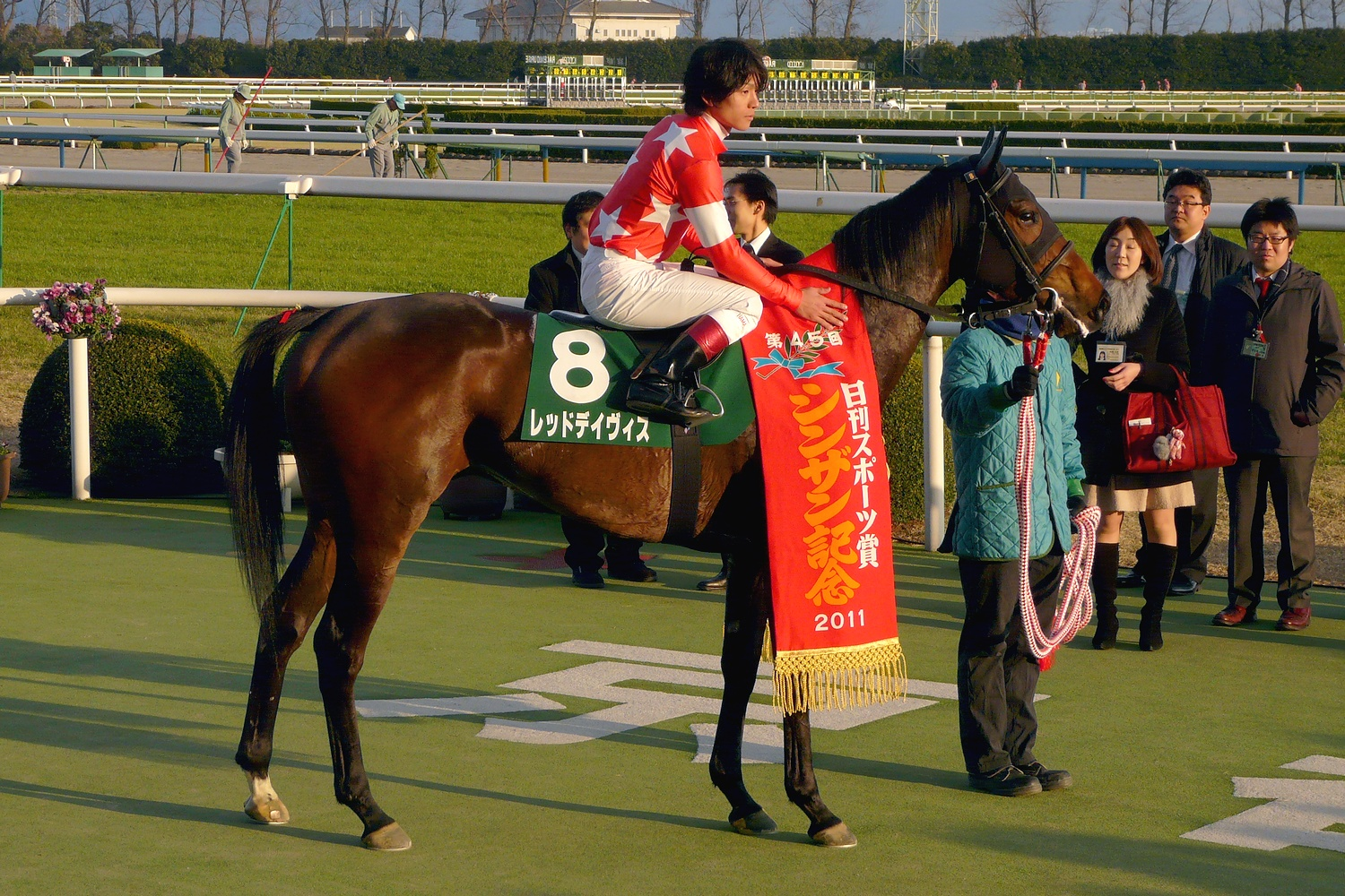 Red-Davis20110109